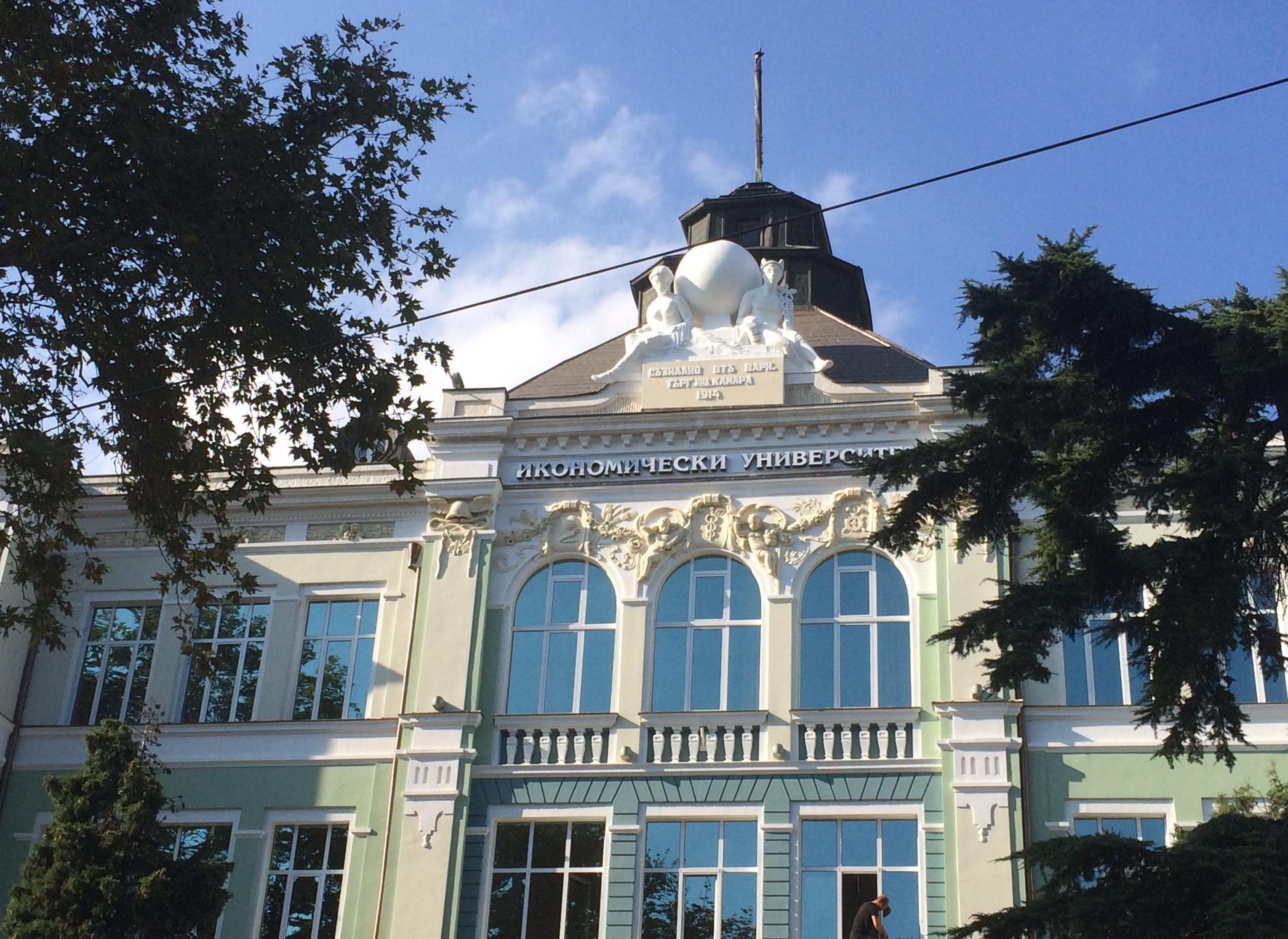 University of Economics Varna Partial view of the main facade.